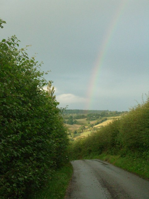 The lane to Avenbury. looking east